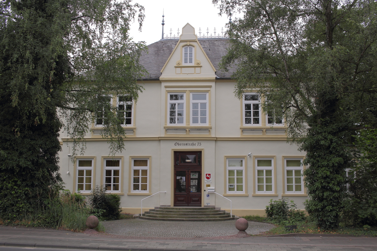 Local court Amtsgericht Achim, Nebenstelle 1 (Achim, Germany). Built in 1828/29, since 1914 used as military hospital, since 1929 used as town hall, since 1993 used as local court.